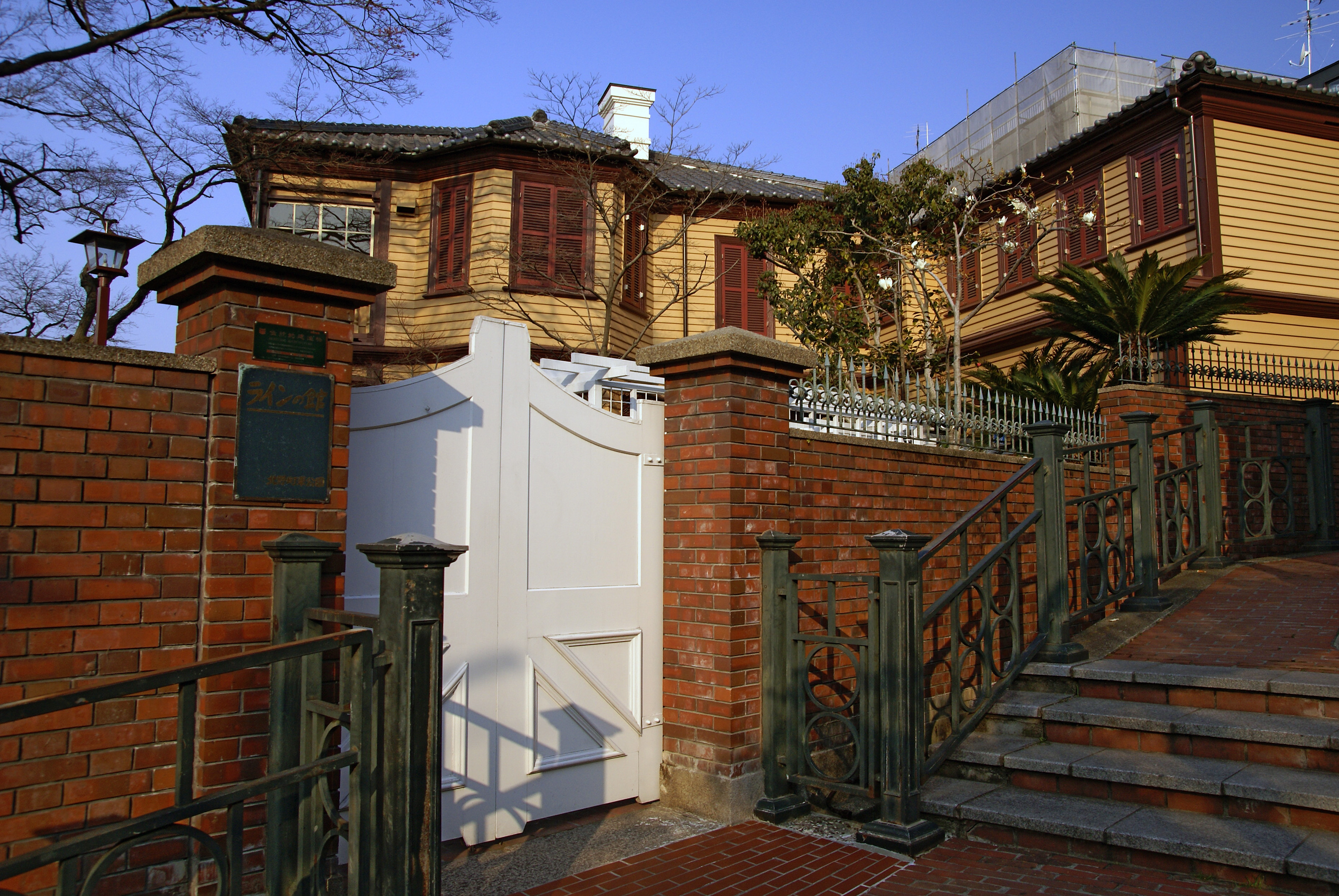 Old Drewell house in Kobe, Japan